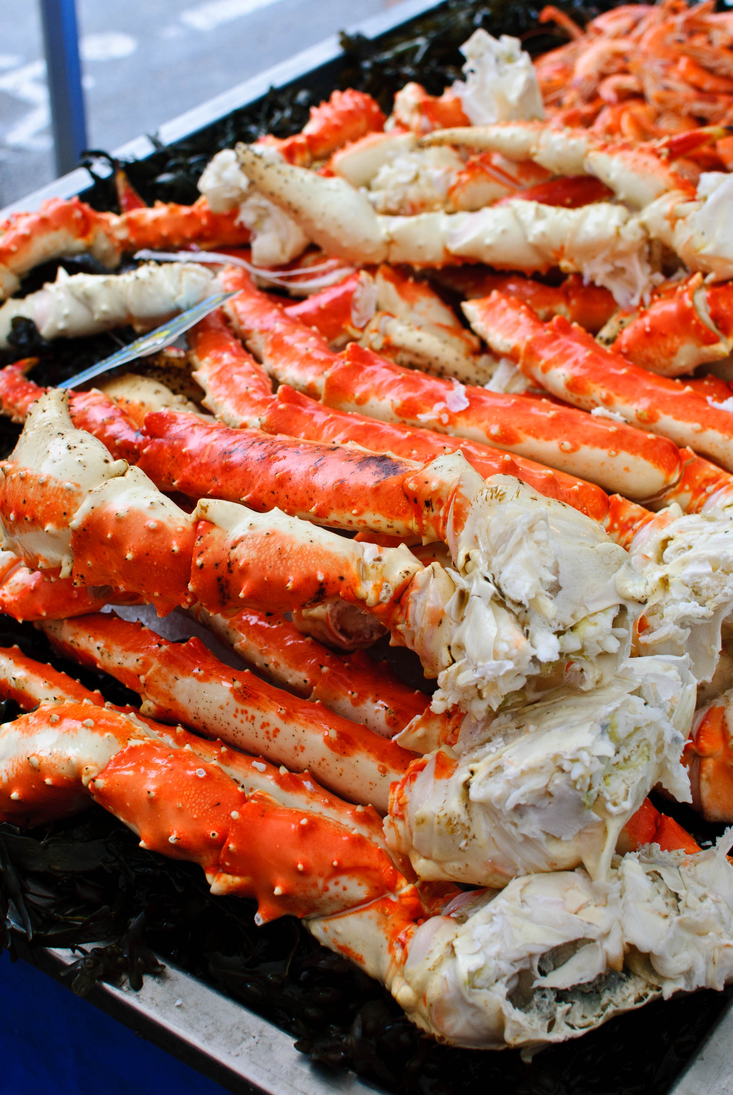 This is the stuff the guys from Deadliest Catch die for.